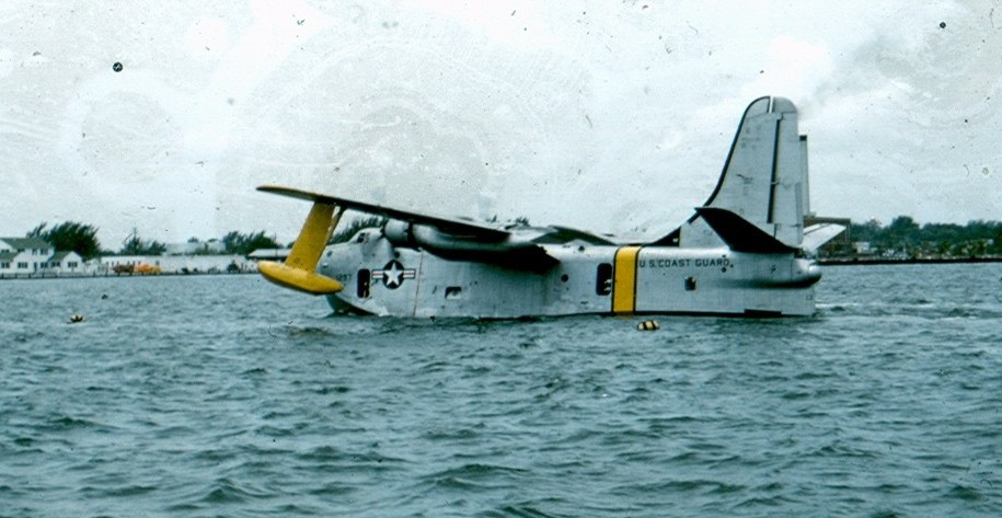 A Martin P5M-1G of the United States Coast Guard taxiing to takeoff area at St. Petersburg Coast Guard Air Station, Florida (USA), on 20 May 1955.